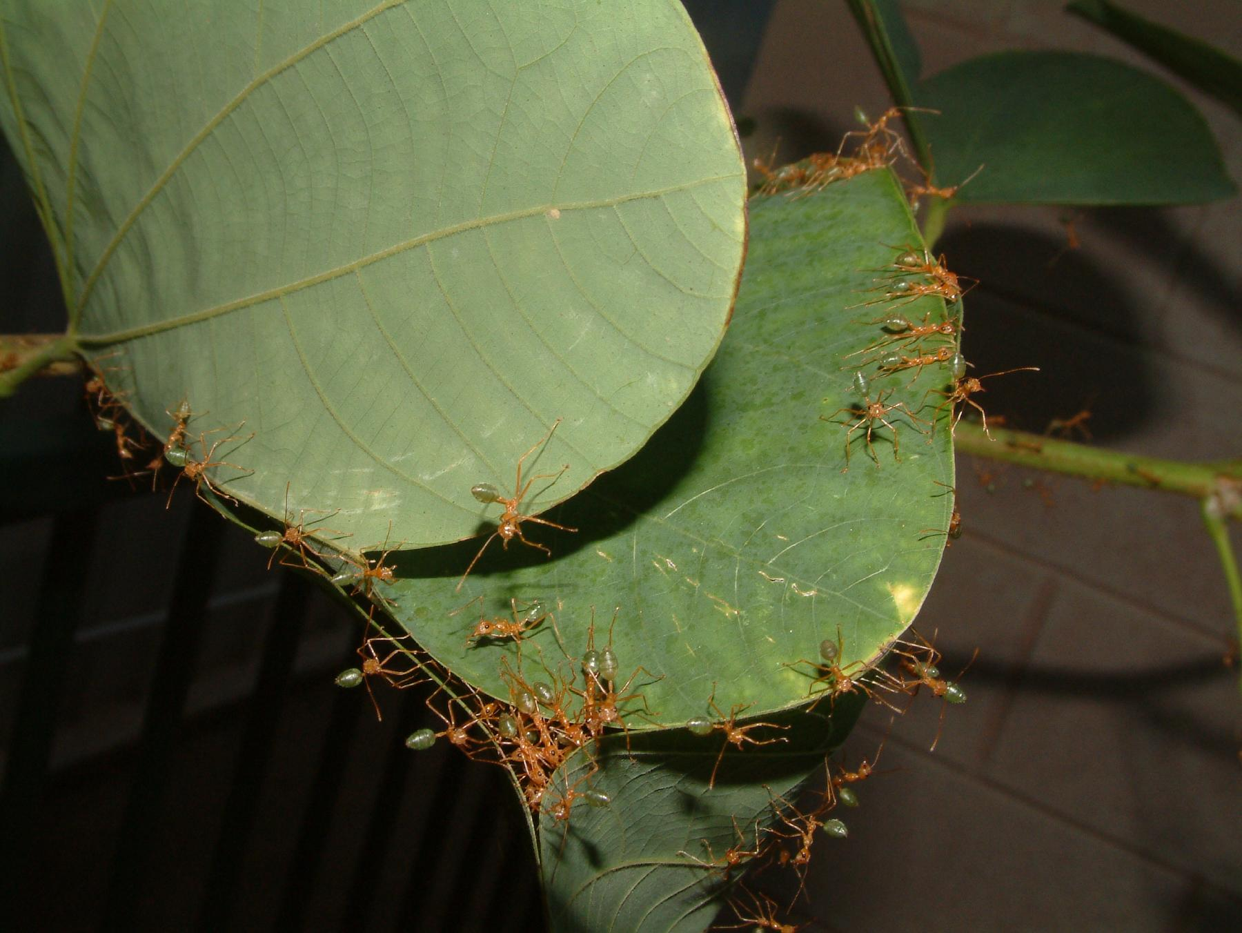 Nesting Green ants (Oecophylla smaragdina)